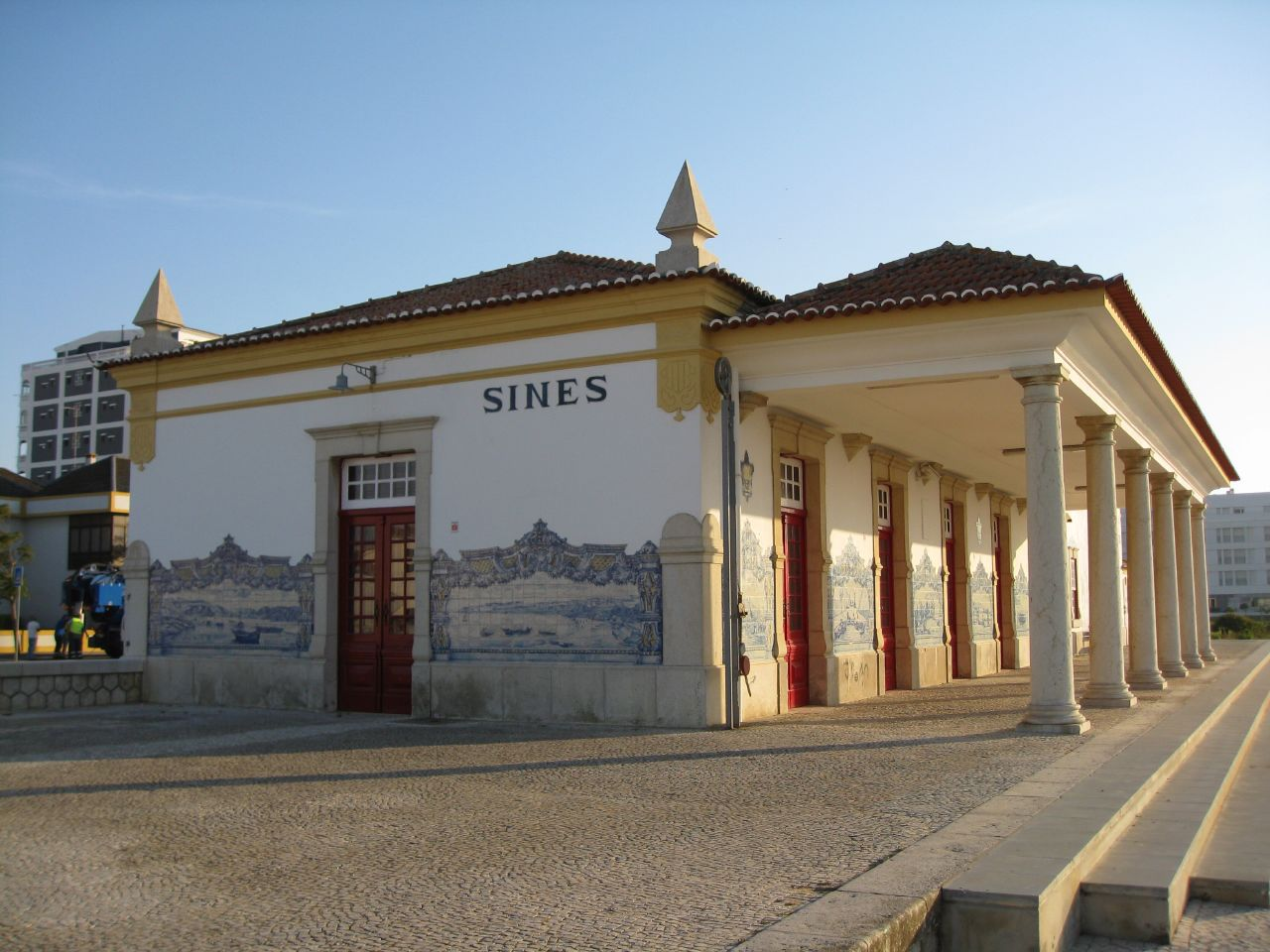 ex Train Station in Sines